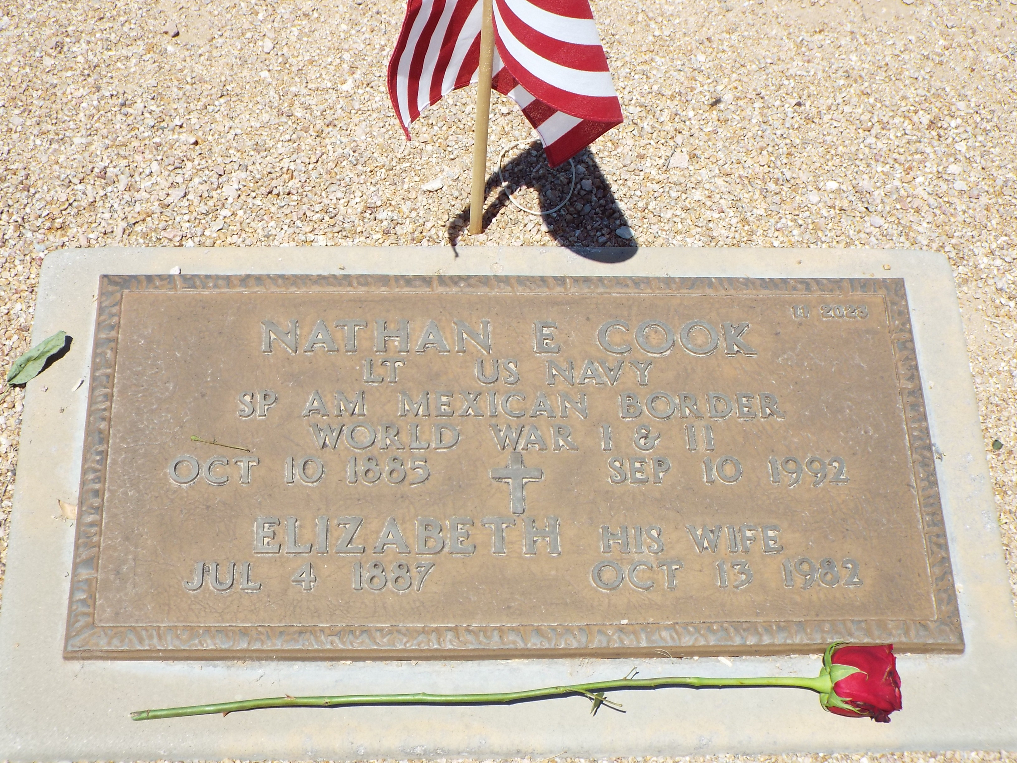 Grave site of Nathan Edward Cook (1855-1992) and his wife Elizabeth Cook (1887-1982). Cook was a sailor in the United States Navy during the Philippine-American War whose naval service continued through WWII. When he died at the age of 106, he was the oldest surviving American war veteran. He is buried in Section 11; Plot 2023 in the National Memorial Cemetery of Arizona.[1]